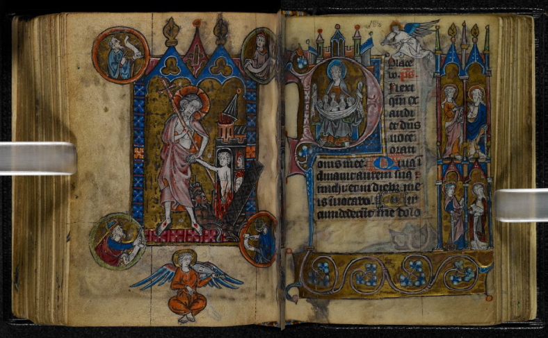 Two adjacent folios (pages) of the Maastricht Book of Hours (BL Stowe MS17), an illuminated manuscript mainly known for its lively depictions of animals and half-animals. The book of hours was probably made for an aristocratic lady in the Liège-Maastricht area in the first quarter of the 14th century. In the 18th century it was owned by the 1st Duke of Buckingham and Chandos, who in 1849 sold it to Lord Ashburham. In 1883 it was purchased by the British Library as part of the Stowe collection. Folios f187v-f255r constitute the Office of the Dead. This section begins with a full-page miniature on the left (f187v). It depicts Christ visiting Purgatory (between his death and resurrection). The medallions show men with scrolls (prophets? evangelists?). At the bottom is a seated angel playing a musical instrument. The initial on the right hand page (f255r) shows "souls resting in Abraham's womb". At the bottom of the recto page is a decorated border with floral motives supporting an architectural structure with two female saints below (one unidentified, the other Saint Agnes) and two male saints above (one with key, possibly Saint Peter or Saint Servatius) .